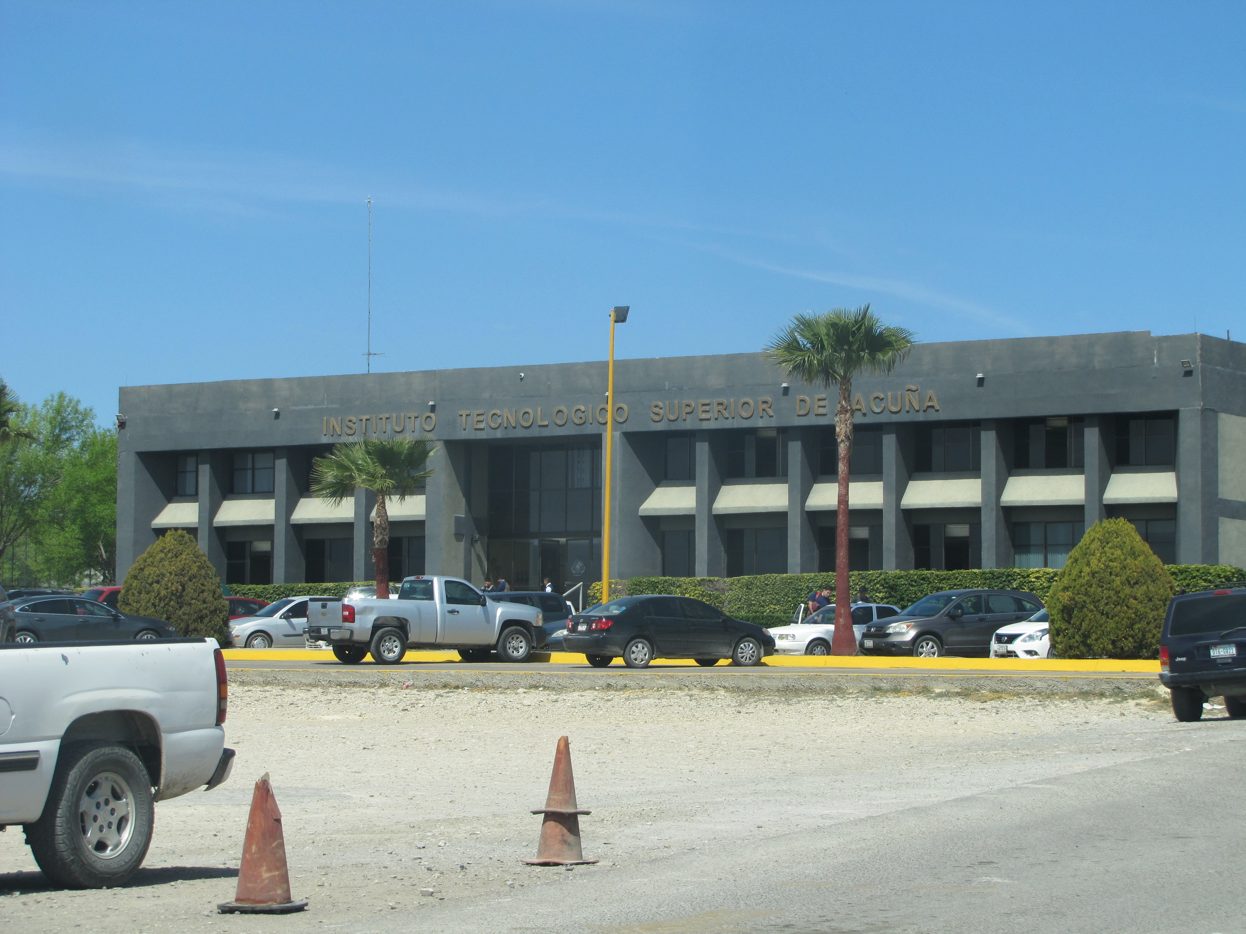 Entrance to Instituto Tecnológico Superior de Ciudad Acuña